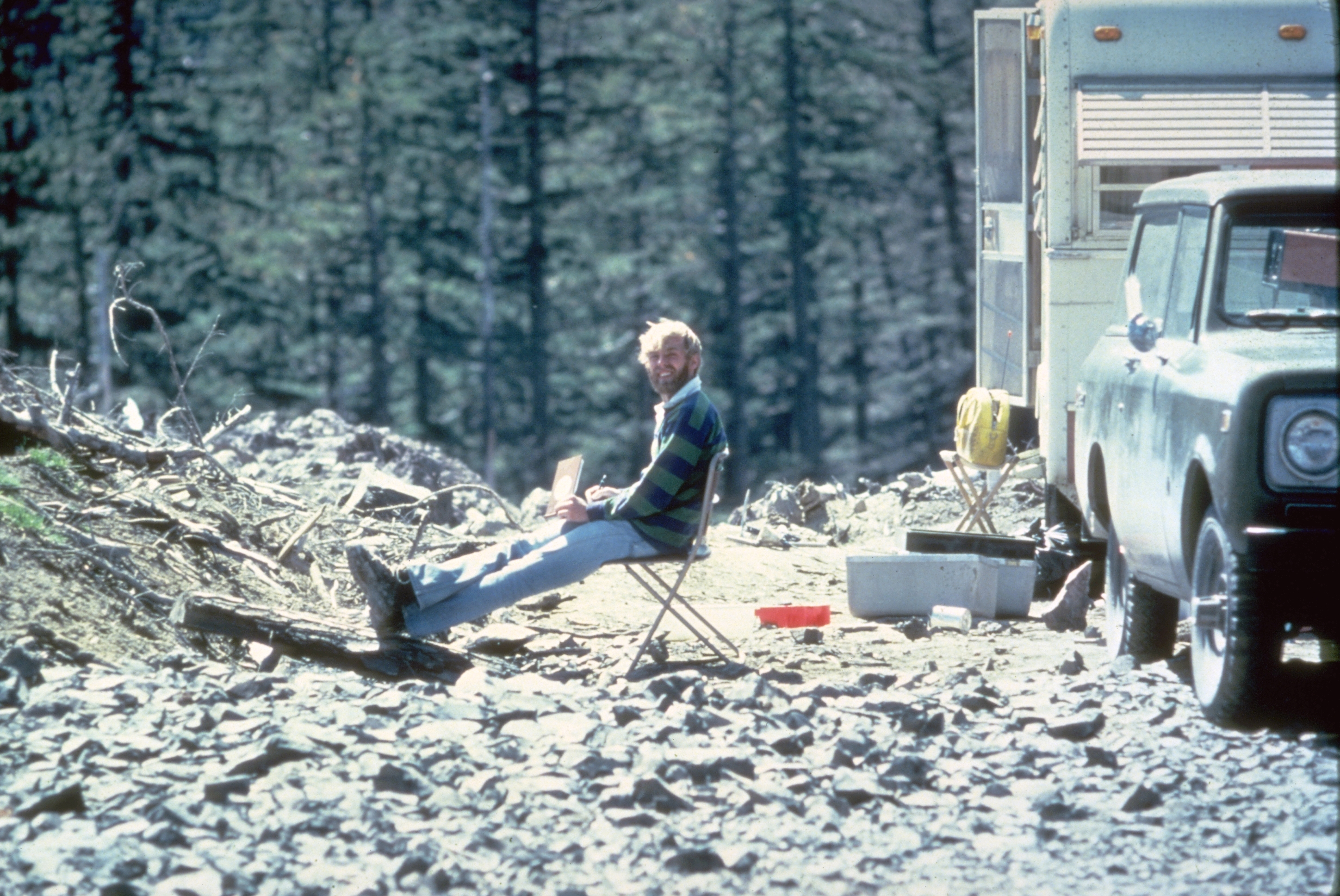 Photo of David A. Johnston, taken by Harry Glicken on May 17, 1980 at 19:00, 13 1/2 hours before the 1980 eruption of Mount St. Helens